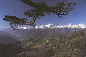 Minya Konka mountain range in Kham Foto: Andreas Gruschke (Freiburg, Germany) i.e. own picture